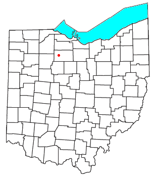 Locator map of the unincorporated community of Bascom in Seneca County, Ohio, United States.